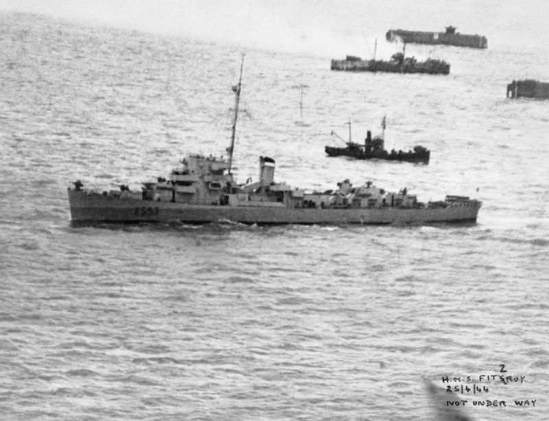 Photograph of Captain class frigate HMS Fitzroy.